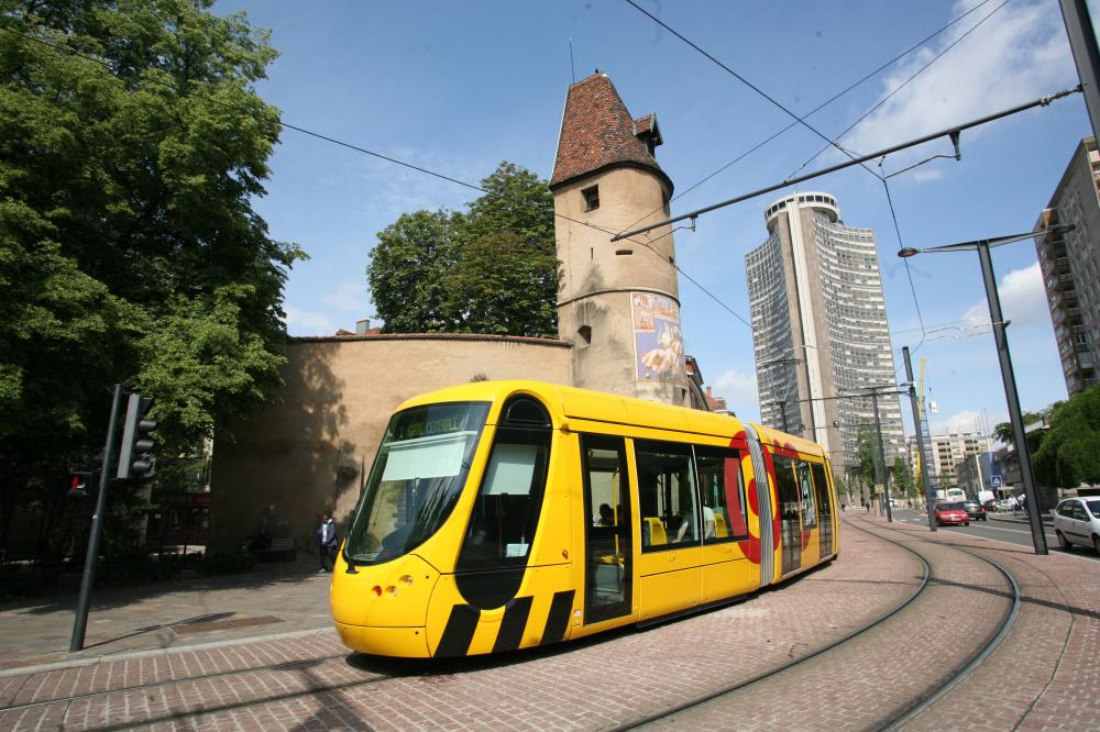 Tramway in Mulhouse (France). Europa Tower